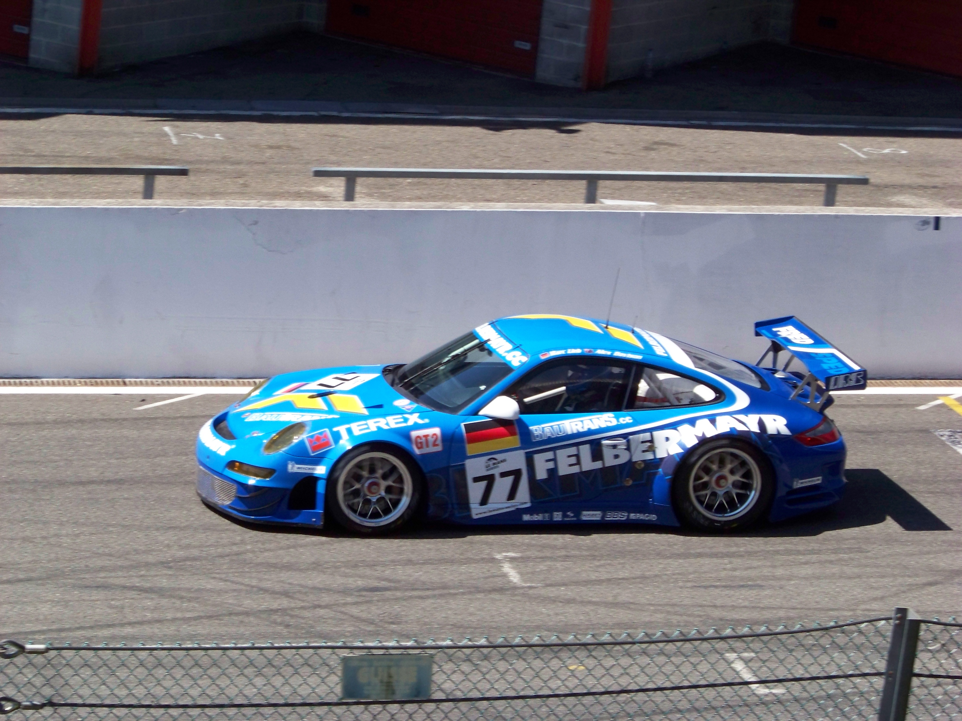 Marc Lieb drives a Team Felbermayr-Proton's Porsche 997 GT3-RSR at the 2008 1000km of Spa.